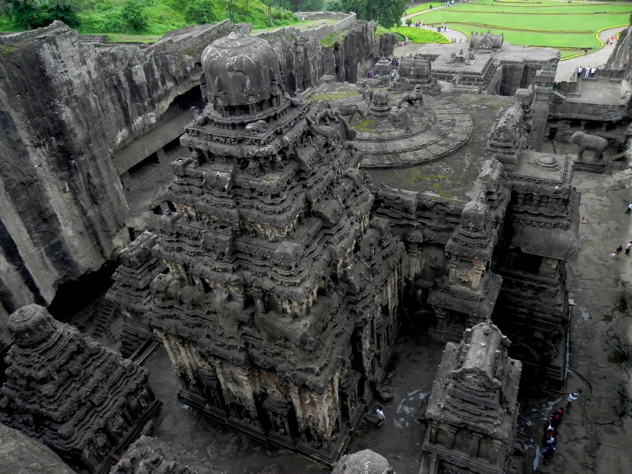 The Kailash or Kailasanatha temple is one of the largest rock-cut ancient Hindu temples located in Ellora, Maharashtra, India.